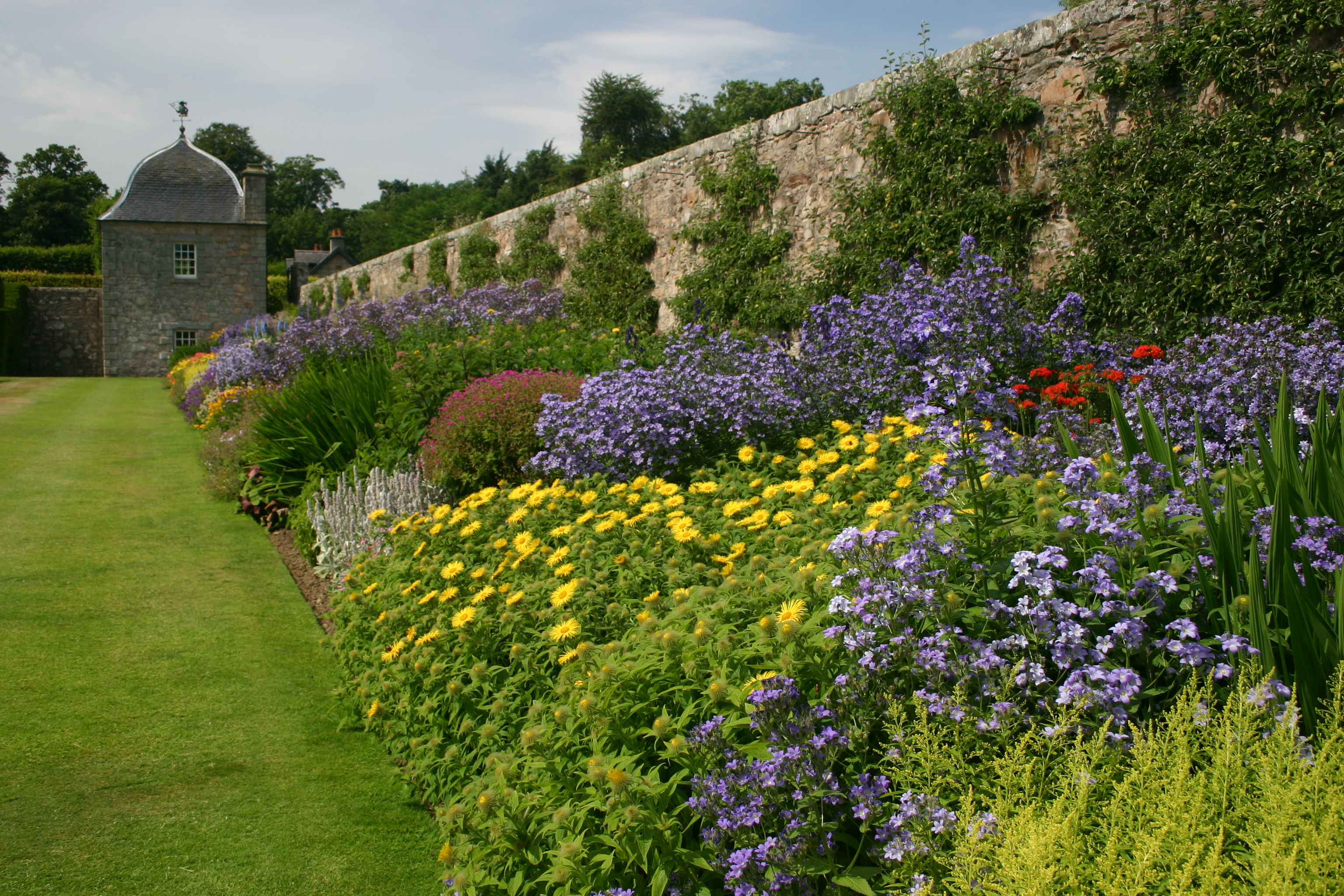 Taken at Pitmedden. This photo shows the herbaceous borders for which the garden is famed.